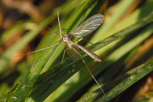 Picture taken in Commanster, Belgian High Ardennes . Species: Neoempheria pictipennis